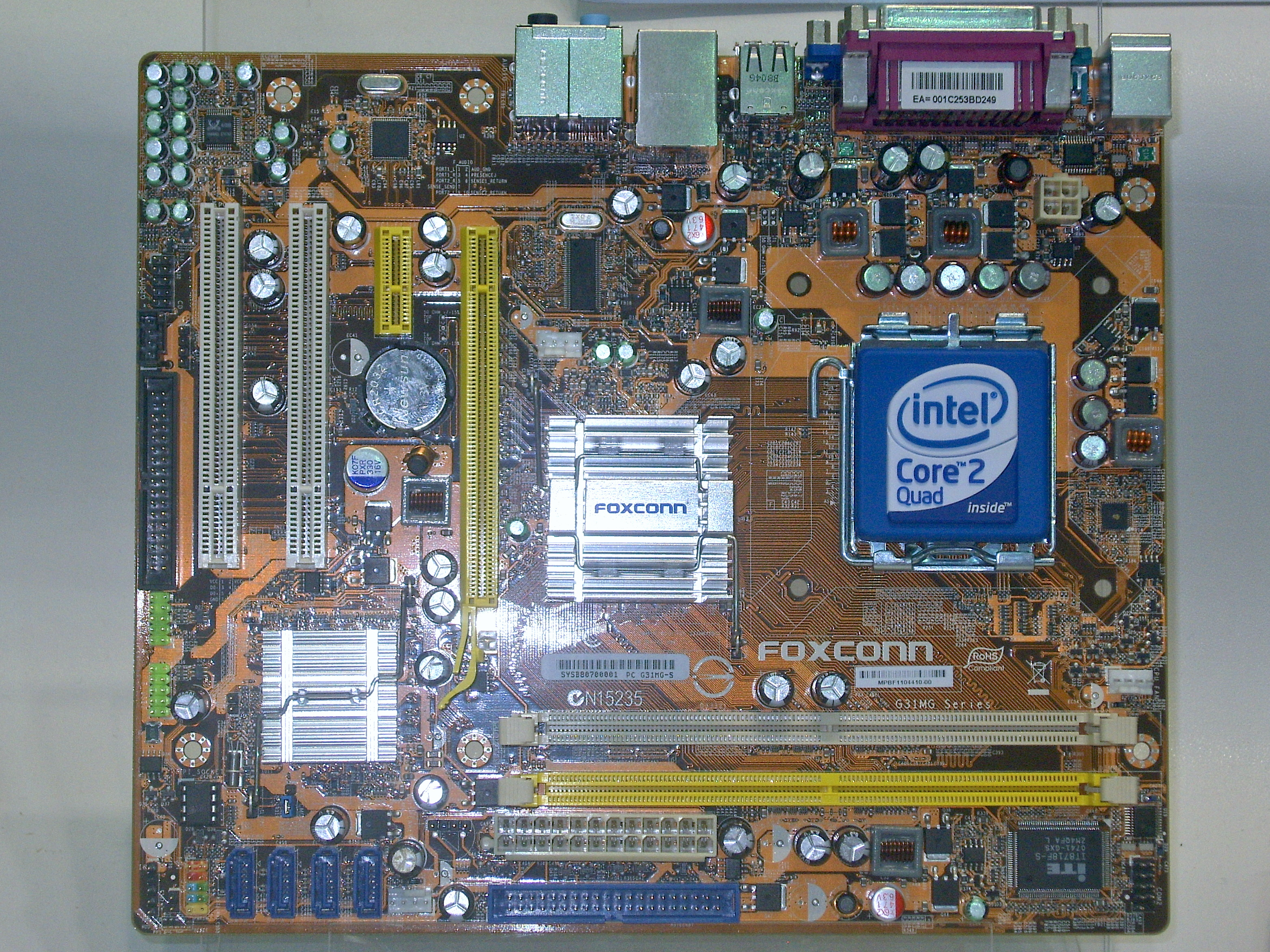 2008 Computex: Foxconn G31MG.